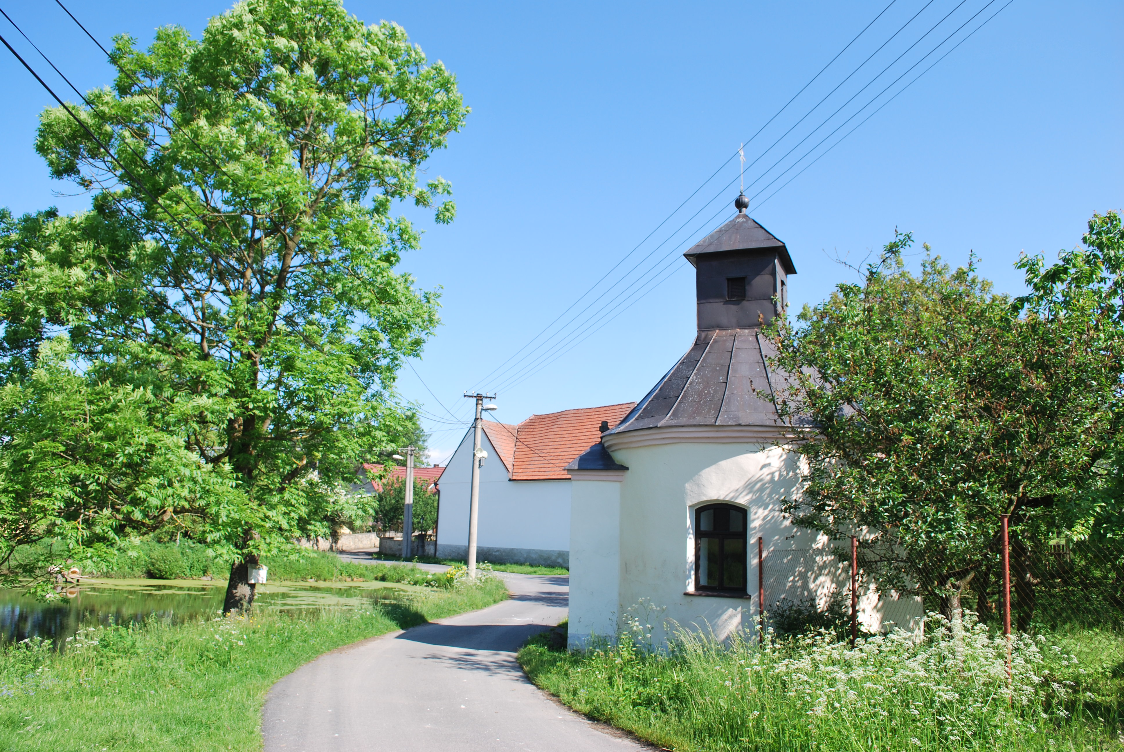 Chapel in Damětice village, part of Frymburk in Klatovy District, Czech republic This photograph was taken within the scope of the 'Czech Municipalities Photographs' grant.